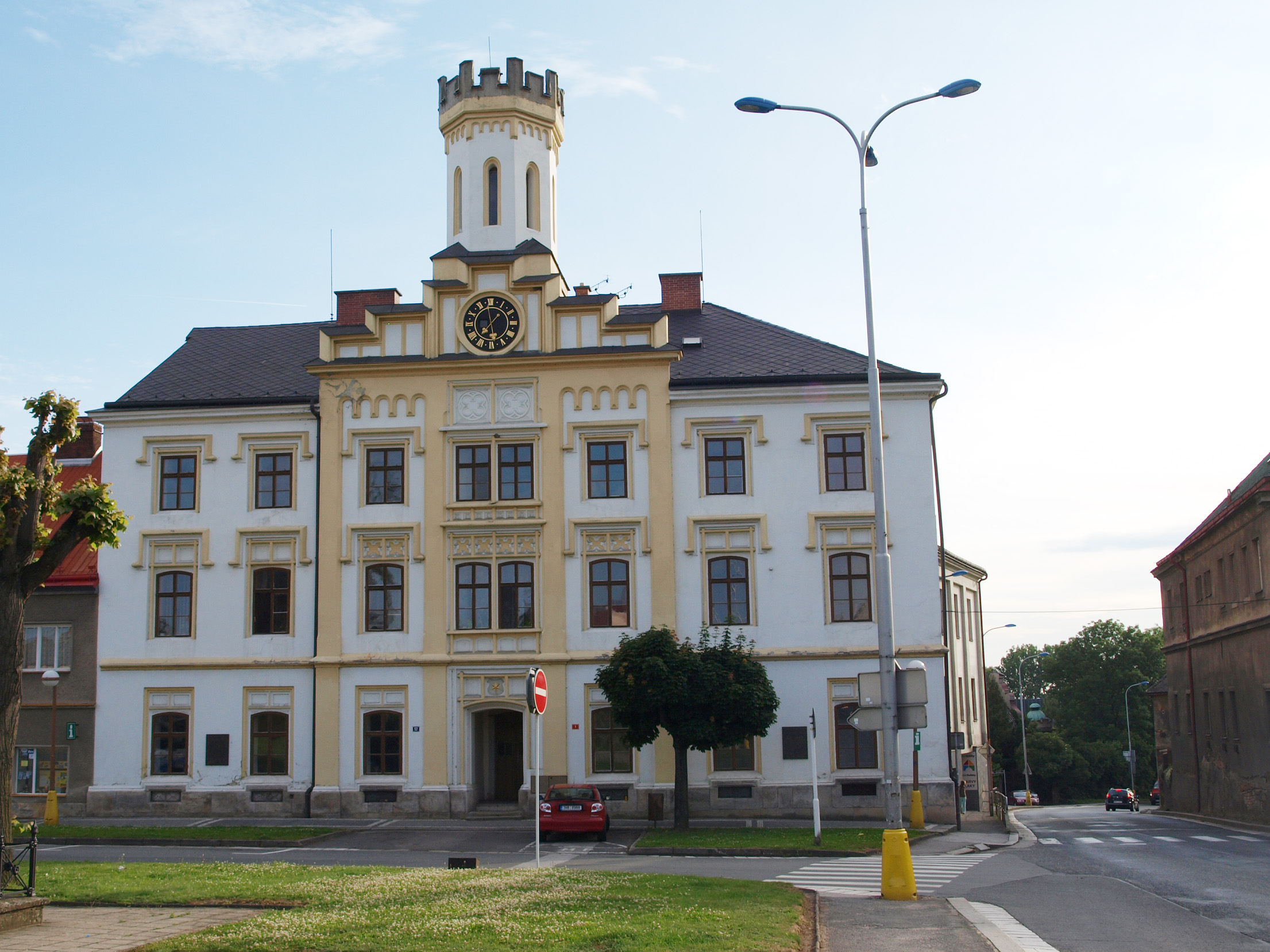 Town hall at the square, Česká Skalice, Czech Republic.